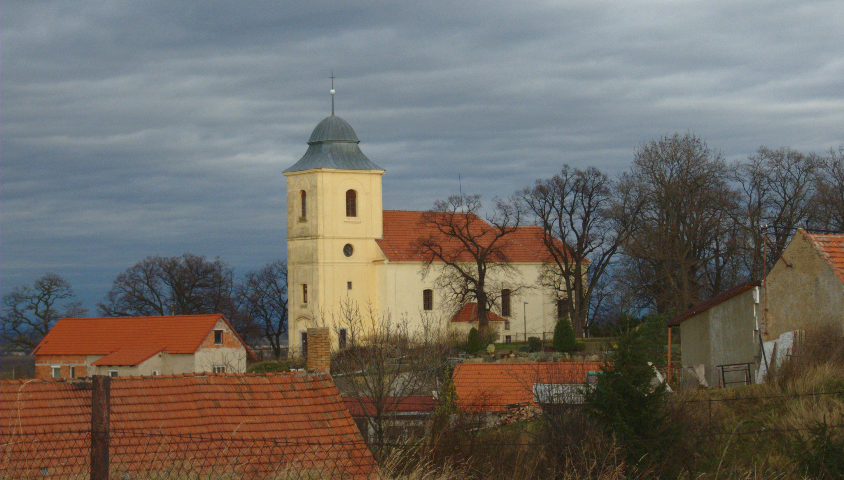 Dobřichov church seen from southwest, Central Bohemian Region, CZ This photograph was taken within the scope of the third year of the 'Czech Municipalities Photographs' grant.